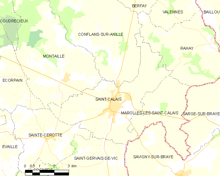 Map of French municipality